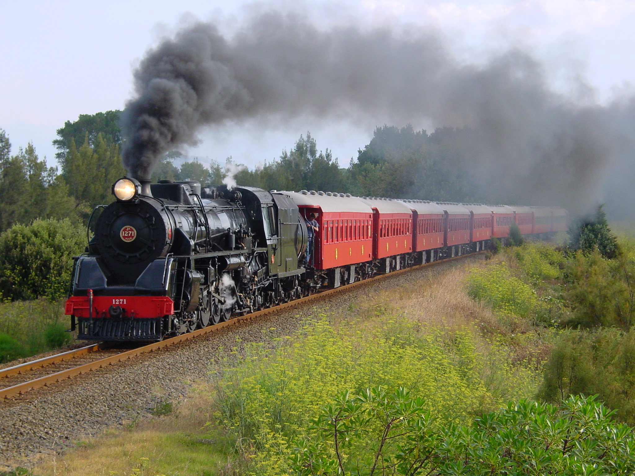 Between this shot just south of Ahuriri, the climb up Opapa, and along the beach-front near Nuhaka, it is a tough contest. All offer good angles and good light in the right conditions.